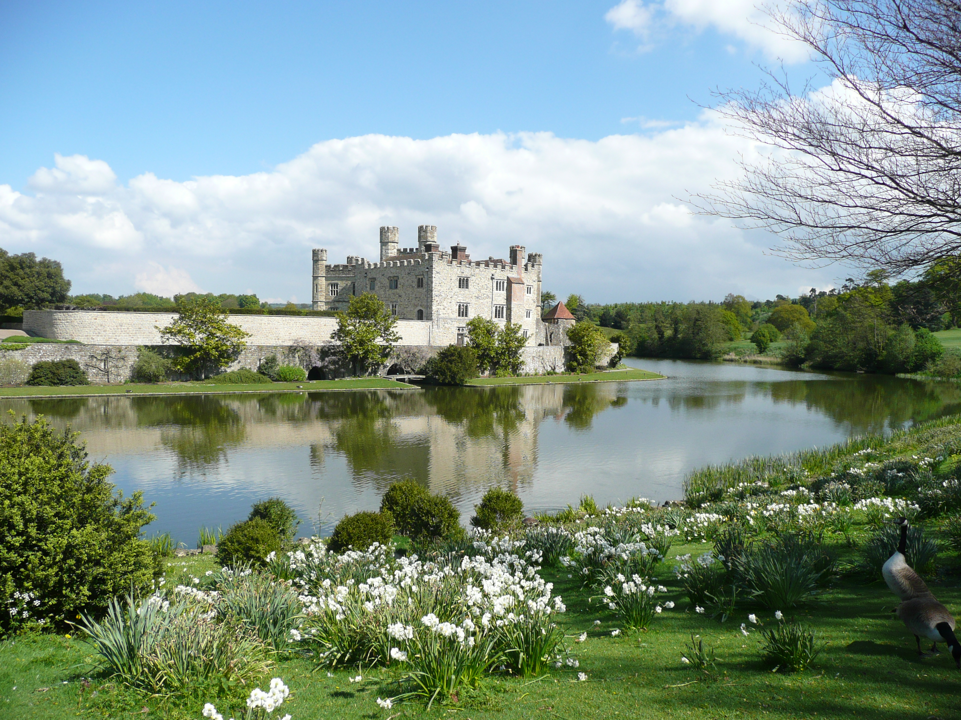 Garden — Leeds Castle